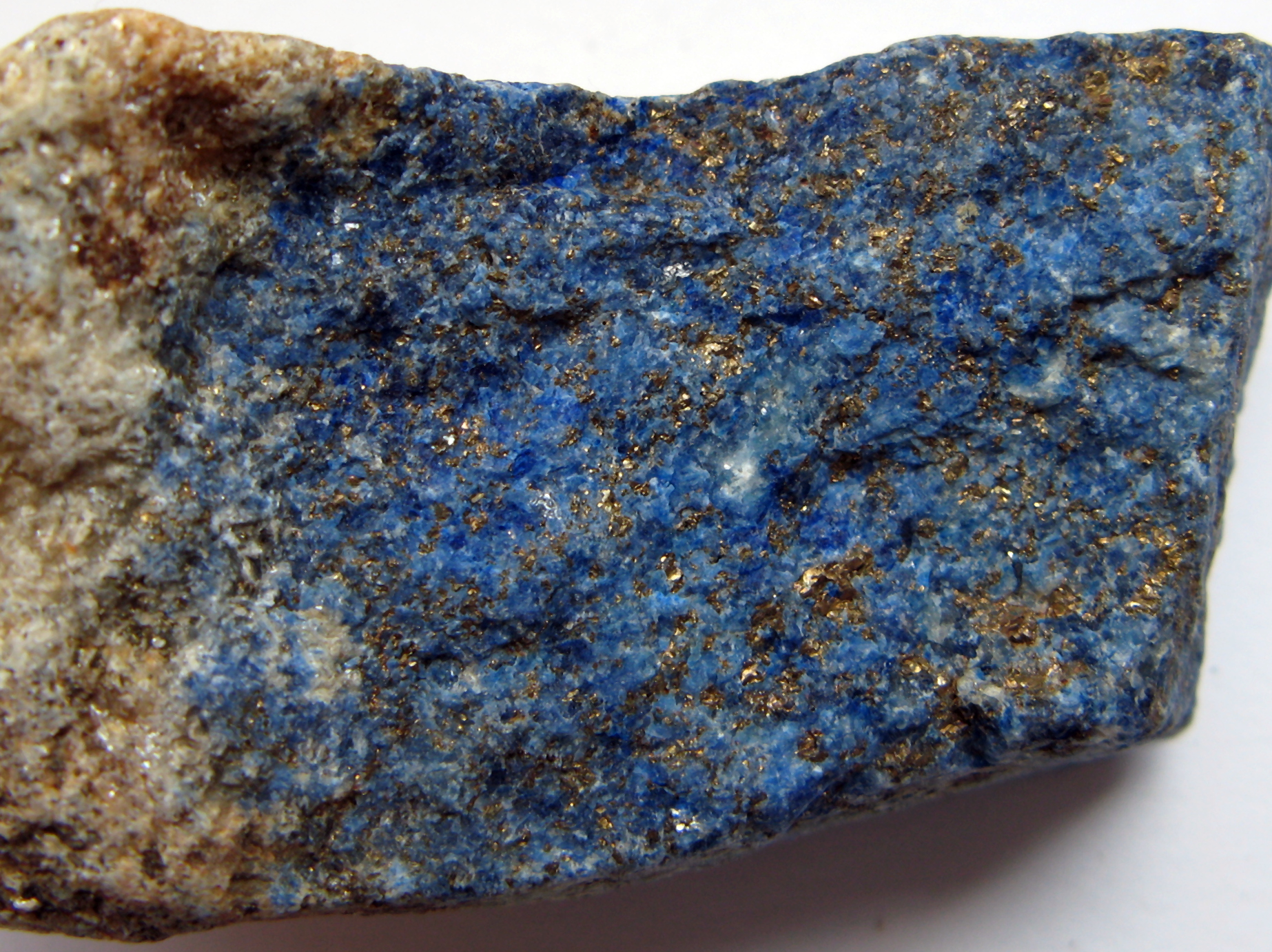 Lapis lazuli from Afghanistan, other view